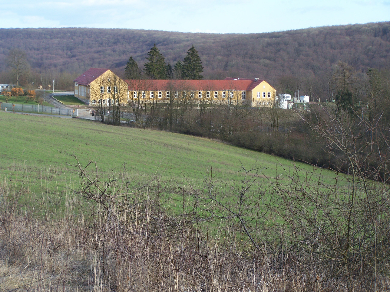 The Wild-live-camp in Lauterbach at the Harsberg.